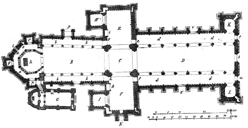 Plan of Nidaros Cathedral, Trondheim, Norway Xylograph published on "Om Thronhjems Domkirke" by O. Krefting, 1885.